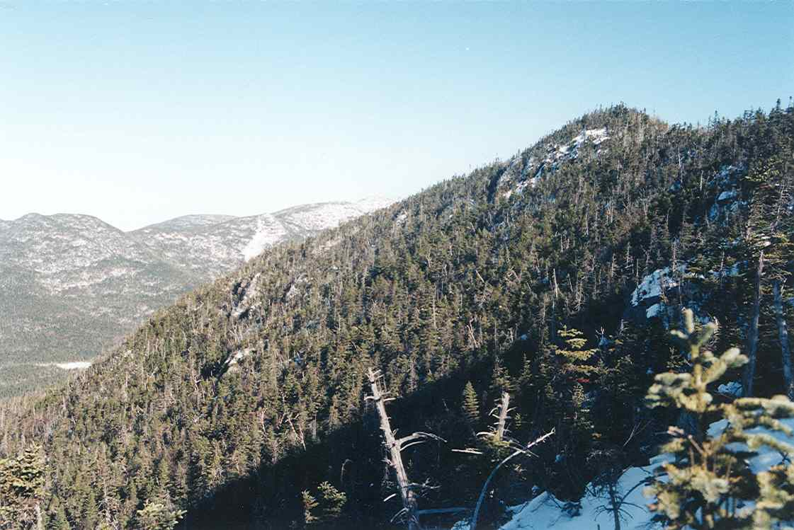 Mt. Allen summit ridge, Adirondacks, NY